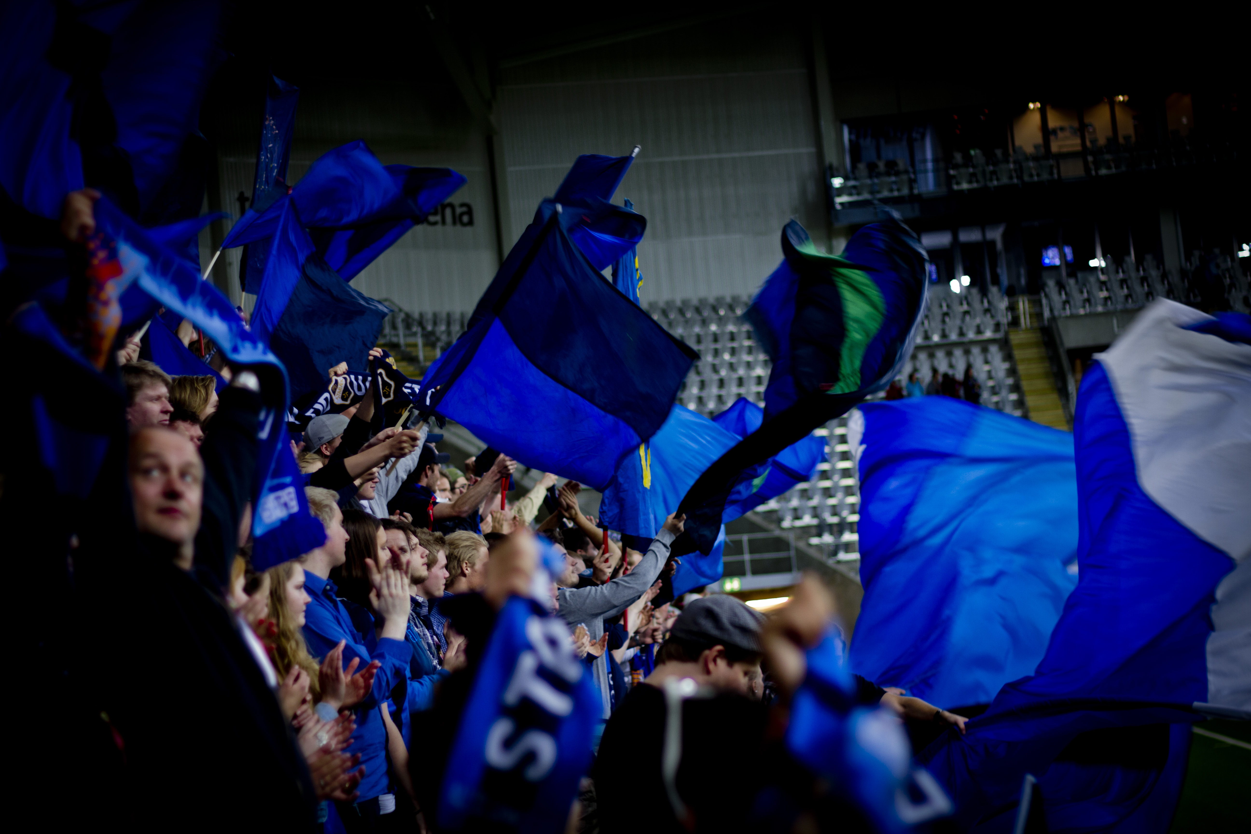 Stabæk Support in the match between Stabæk Fotball and Sogndal, May 16th 2011.